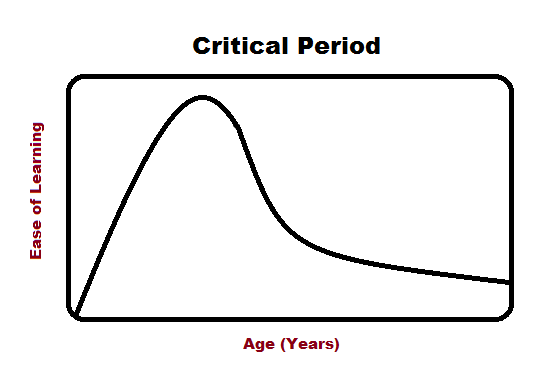 Critical Period Graph